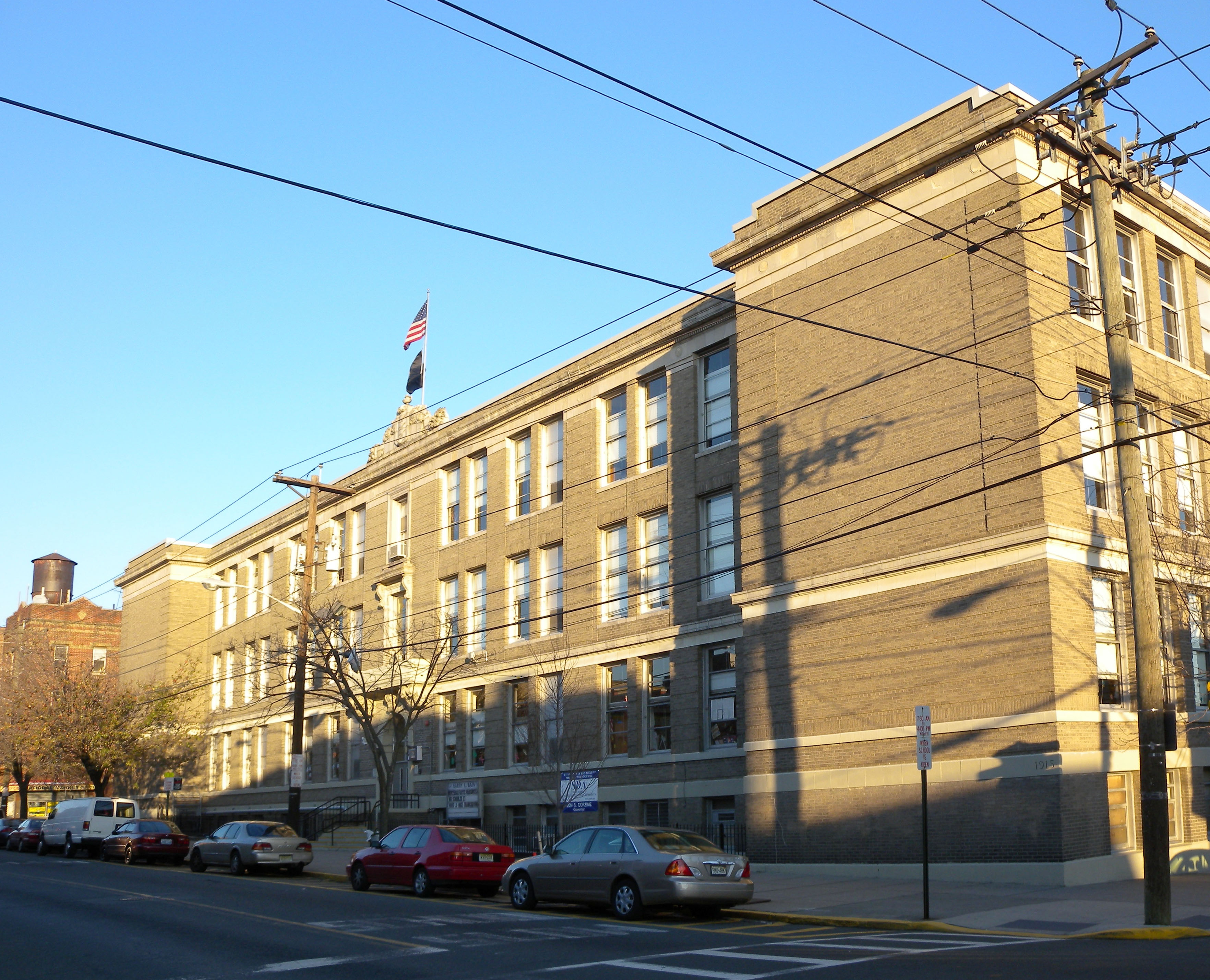 Looking northeast at Harry Bain School in West New York on a sunny afternoon.